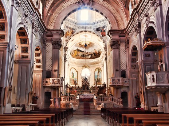 Concattedrale di Bosa